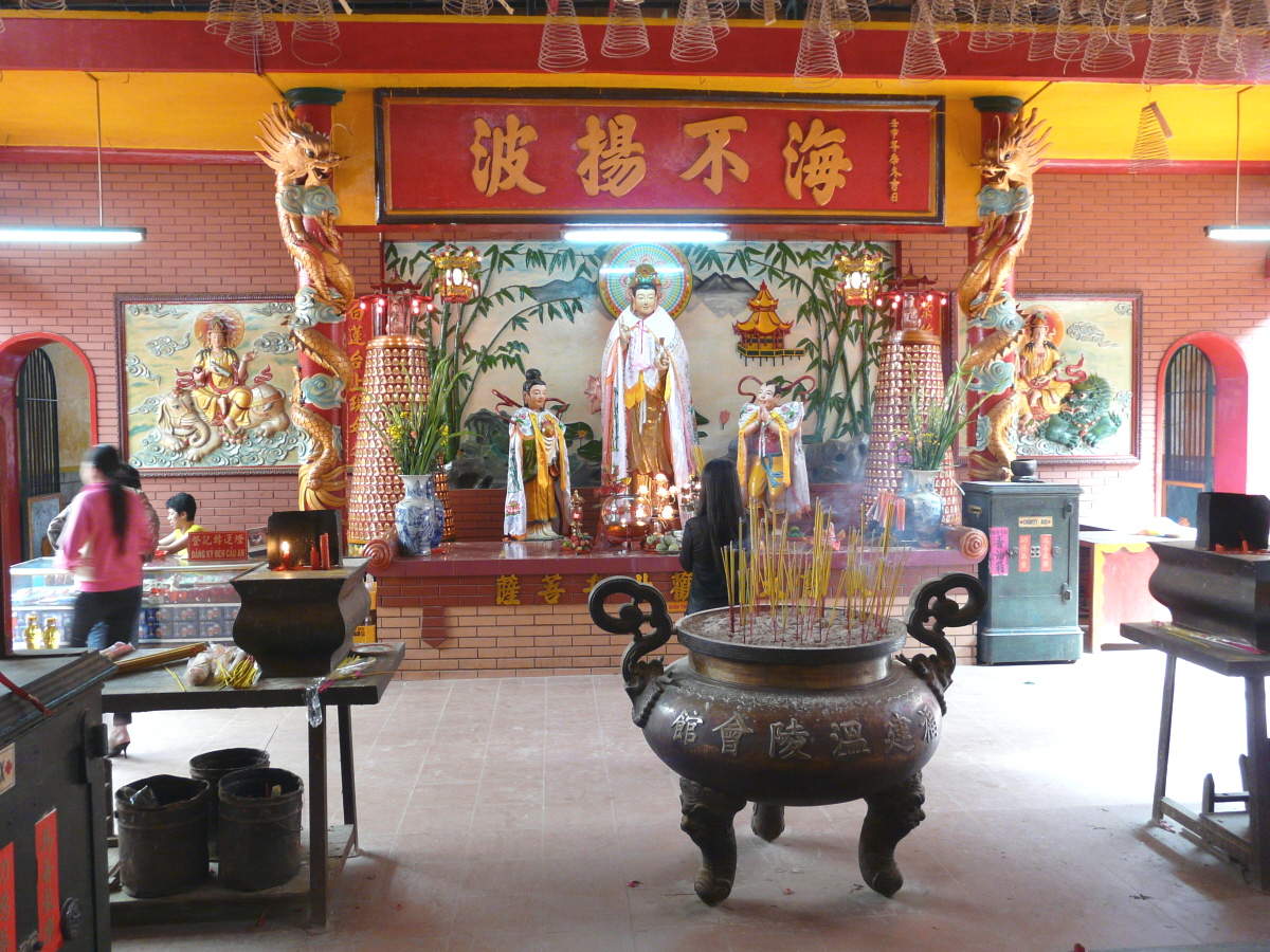 This is the main image in the outer courtyard of Quan Am Pagoda, Cho Lon, Ho Chi Minh City. The statue is of Quan Am (Guan Yin in Chinese).